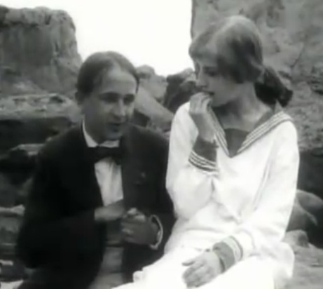 A still from Yevgeni Bauer's 1917 film Za schastem with Lev Kuleshov and Tasya Borman.